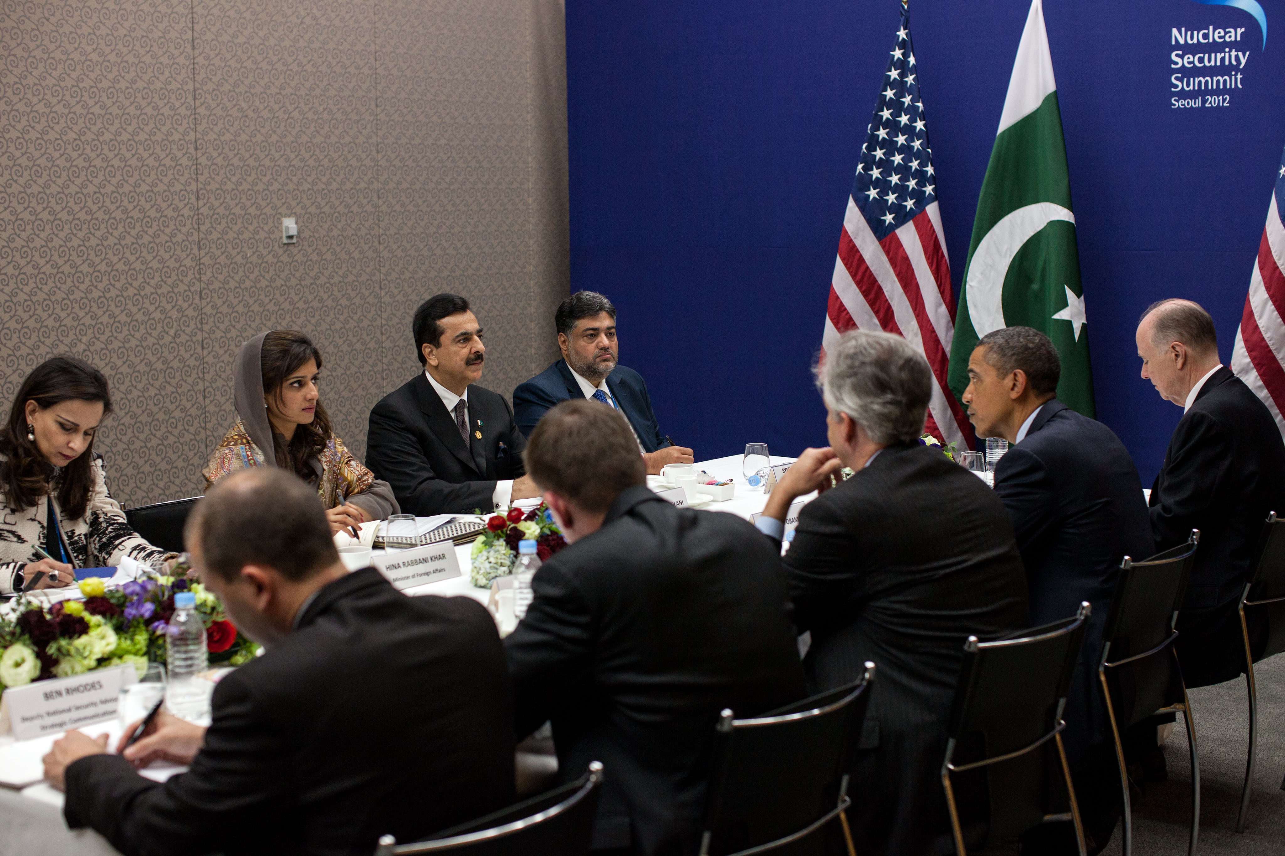 United States President Barack Obama participates in a bilateral meeting with Prime Minister Yousaf Raza Gillani of Pakistan during the Nuclear Security Summit at the Coex Center in Seoul, South Korea on 27 March 2012.